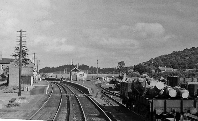 Abermule station. View taken from the rear of a Diesel Rail-car (Special working from Paddington to Towyn, for Talyllin Railway Preservation Society), NE towards Welshpool; Kerry branch (closed for passengers 9 February 1931, for Goods 1 May 1956) curving away to right.